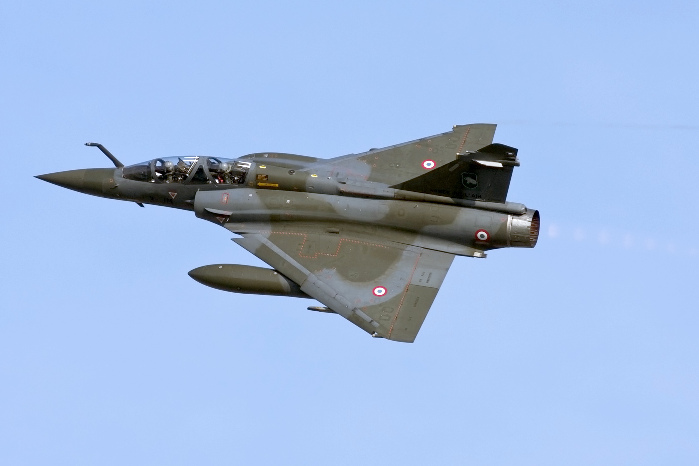 Leeuwarden, 13 April 2016. Nice take off by this French Mirage.